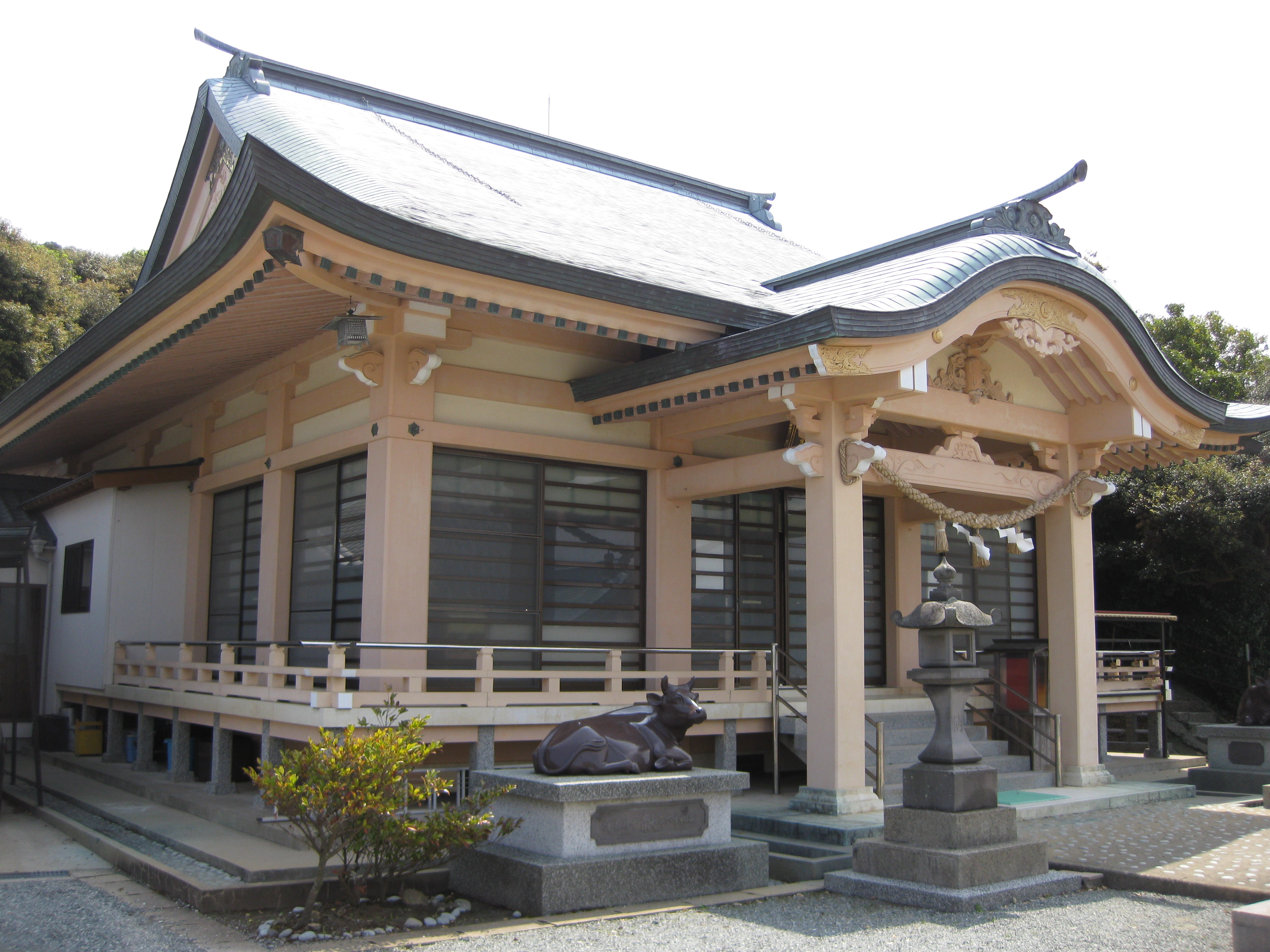 Arikawa jinja